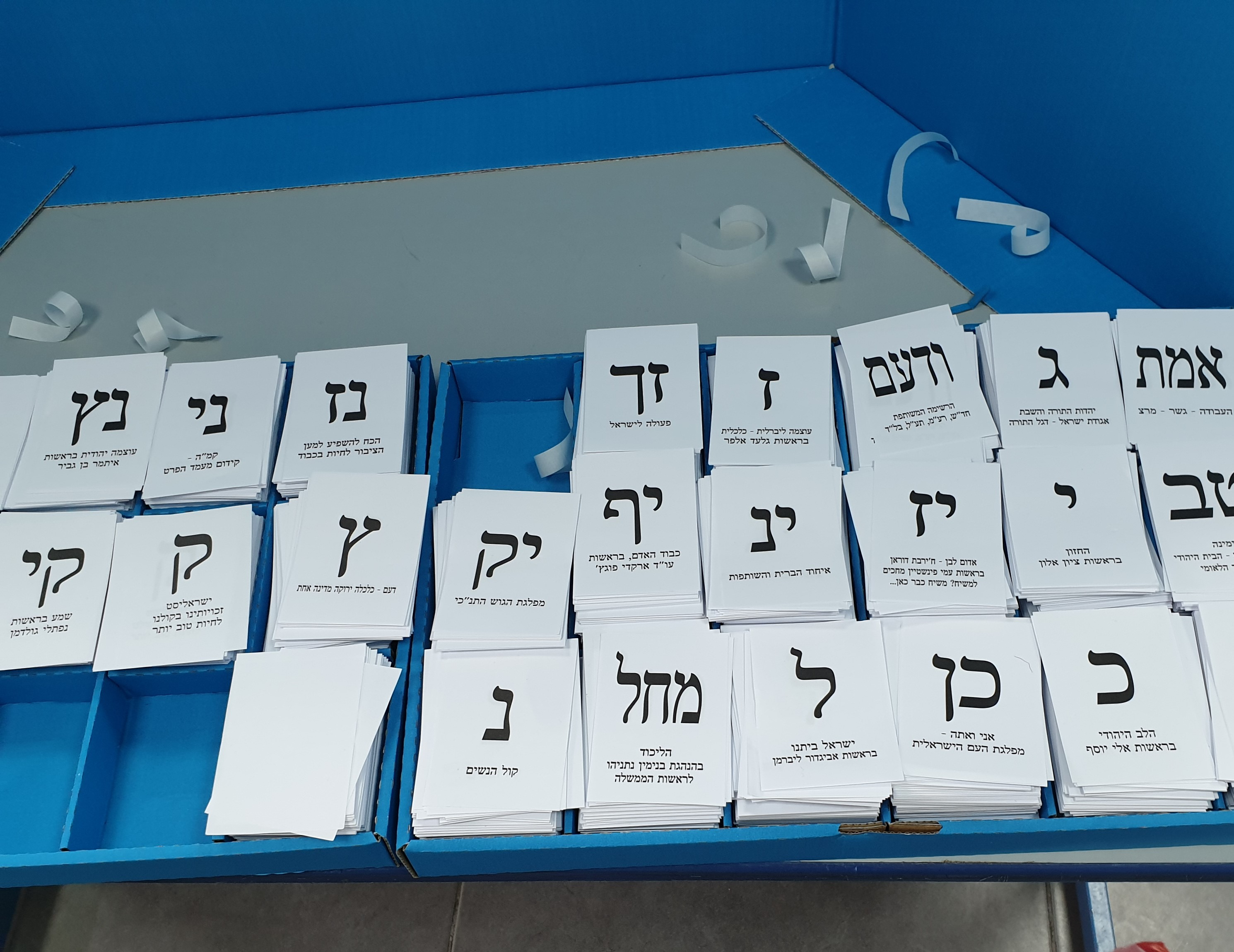 Ballot station in Ramat Gan, Israel. March 2020